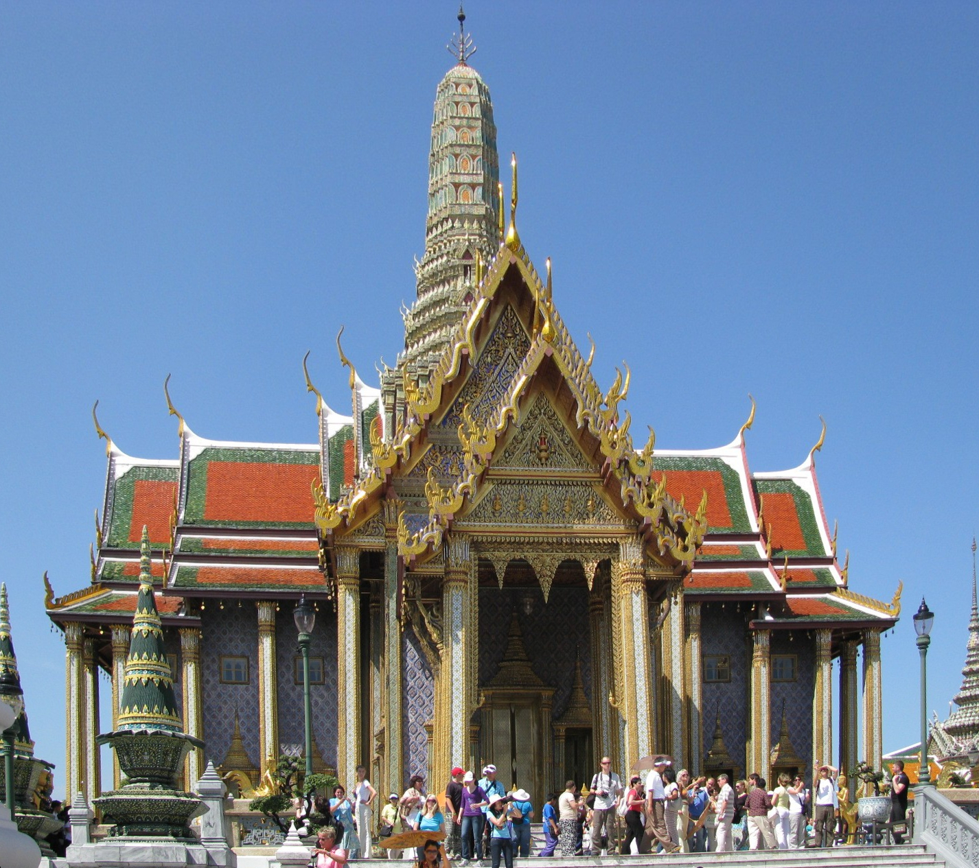 The Temple of the Emerald Buddha in Phra Nakhon, Bangkok, Thailand.